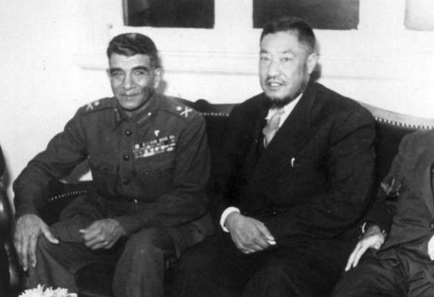 Republic of China Chinese muslim General Ma Bufang meets Egyptian general Muhammad Naguib.